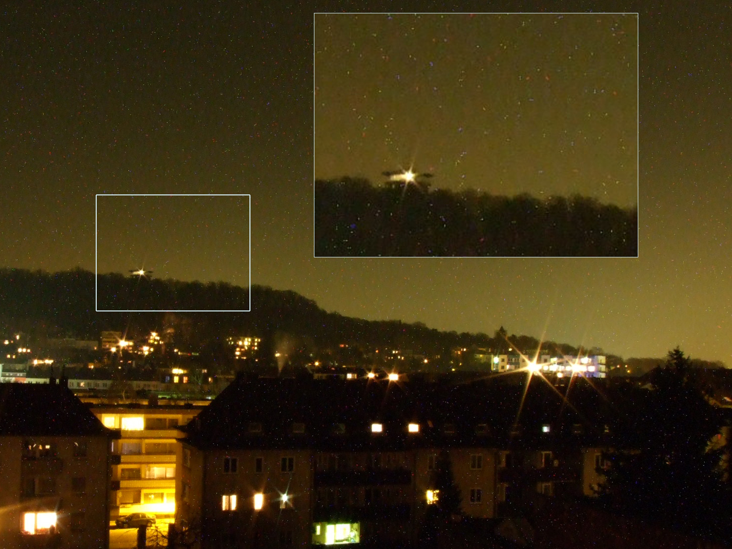 Example for hotpixels on a night shot Exposure time: 30 s camera: FinePix S6500fd ISOSpeedRatings: 800